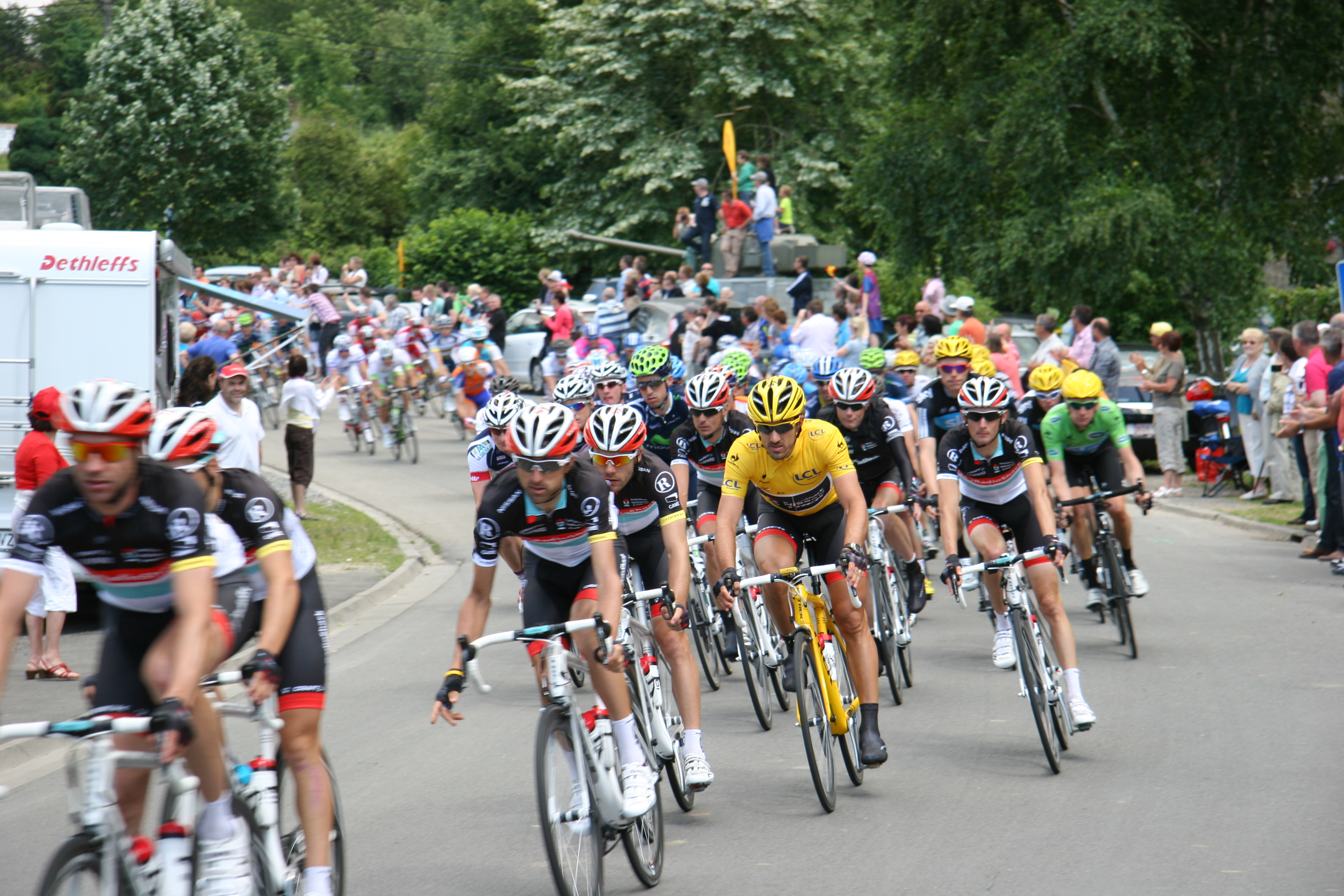 99th Tour de France stage 1 in Hotton (Belgium) Fabian Cancellara in the yellow shirt